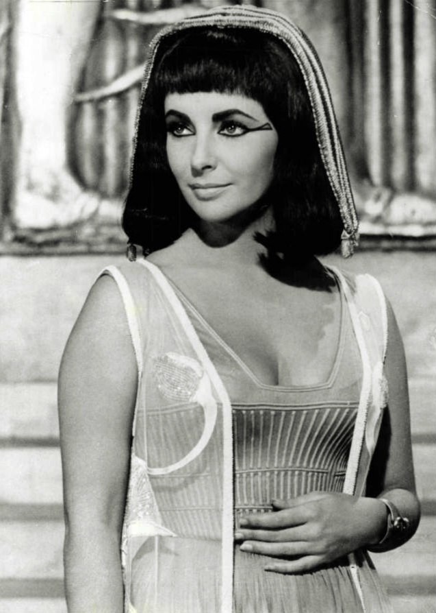 Photo of Elizabeth Taylor from the film Cleopatra.